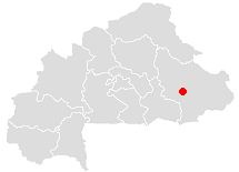 The map shows the location of the town of Fada N'gourma in Burkina Faso.